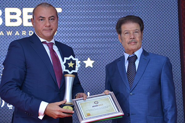 جائزة أفضل فريق اداري عربي لعام 2017